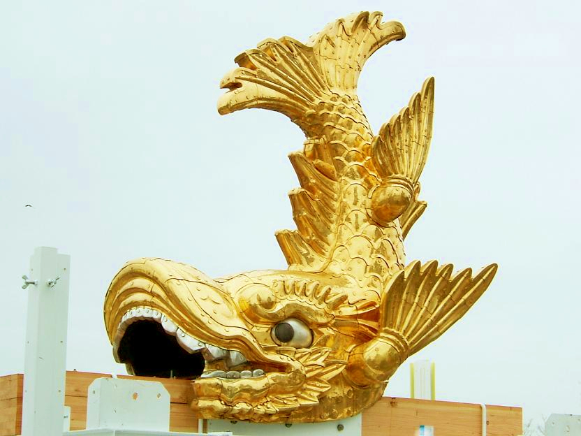 Nagoya Castle Golden Shachi-Hoko A Filly.